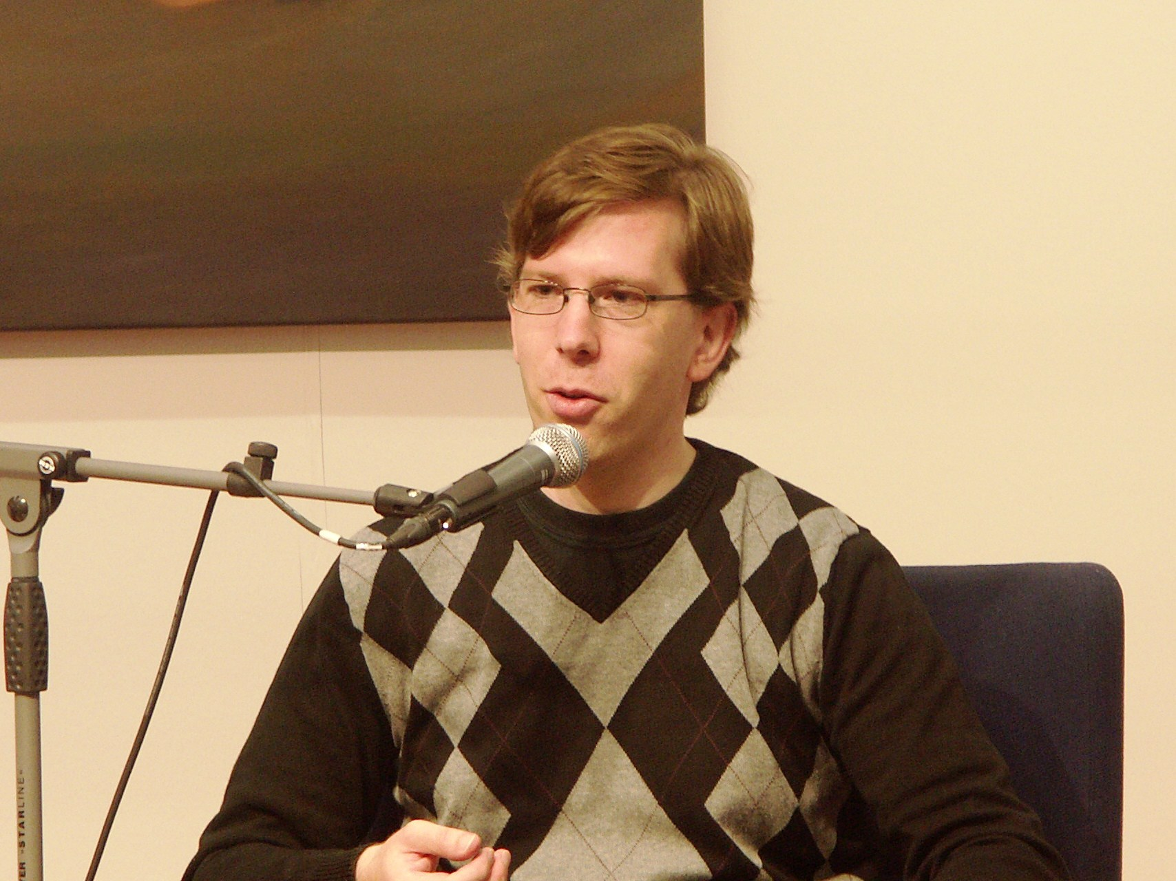 Swedish cartoonist David Liljemark at Göteborg Book Fair 2009.